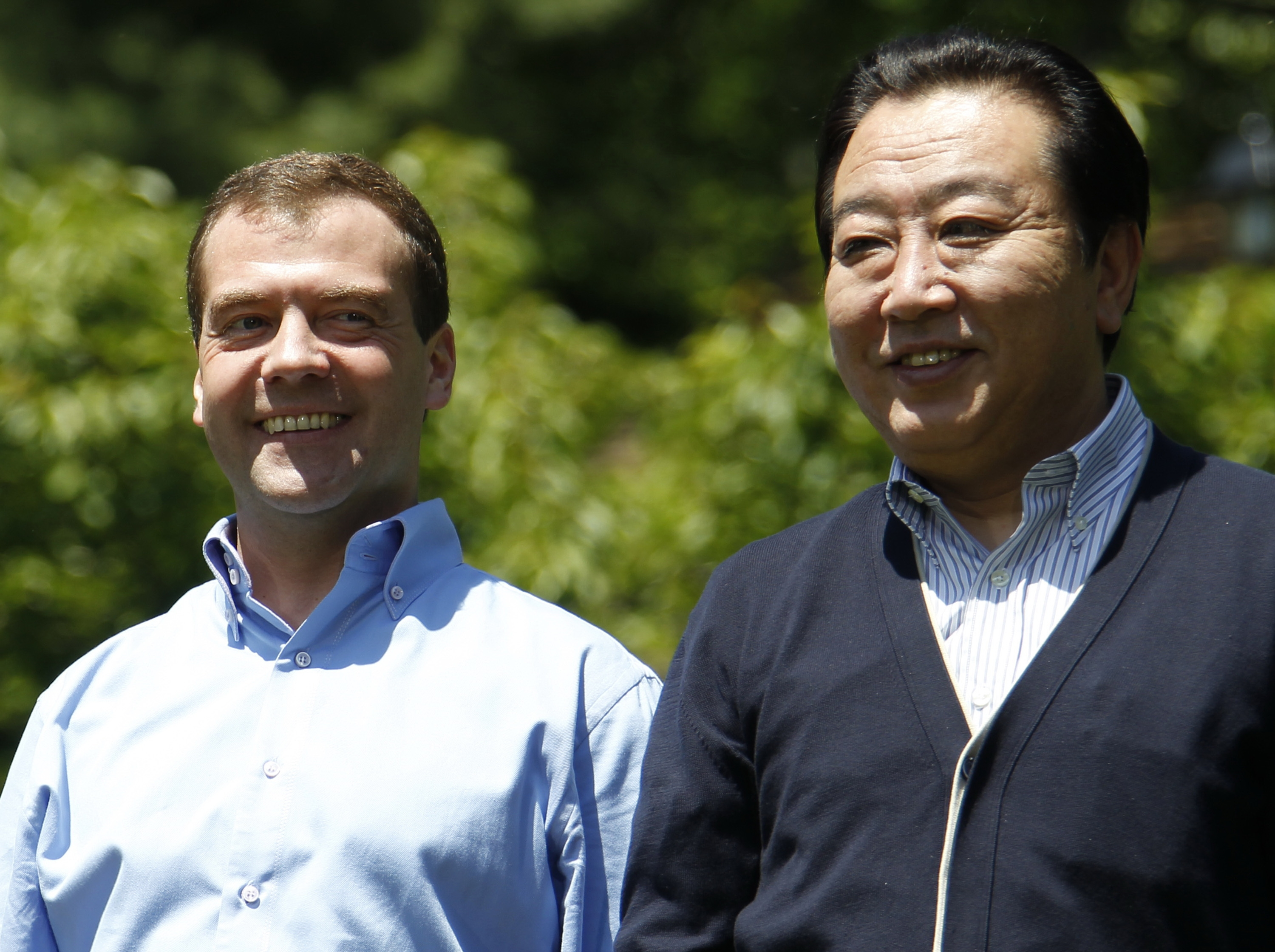 Russian Prime Minister Dmitry Medvedev and Japanese Prime Minister Yoshihiko Noda pose for a group photo during the 38th G8 summit at Camp David, Maryland.